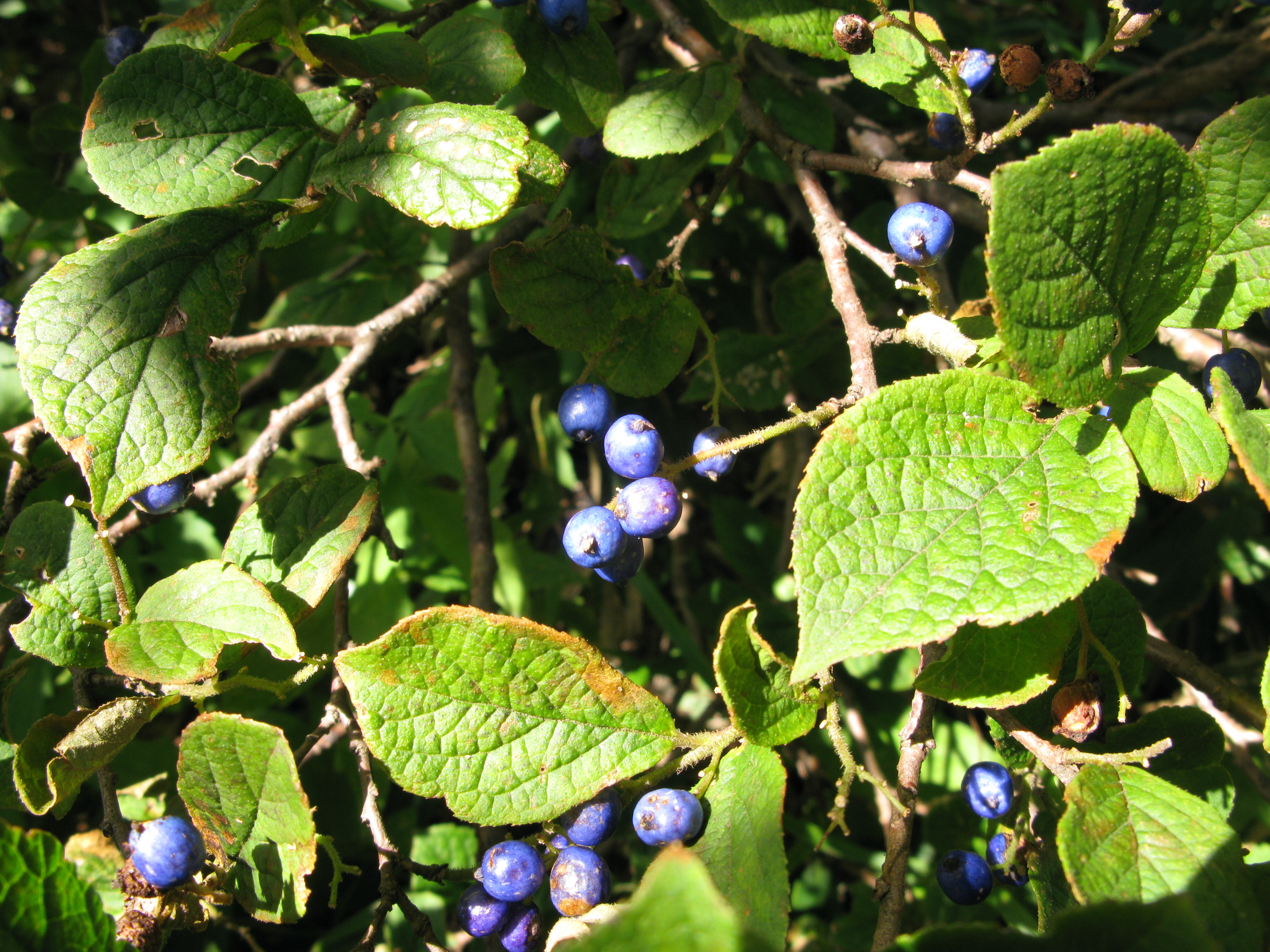 Symplocos sawafutagi, Fukushima pref., Japan